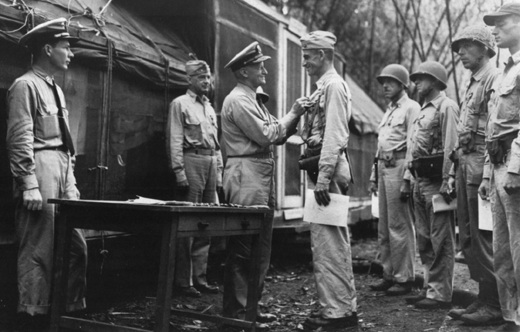 Visiting Guadalcanal on 30 September, Adm Chester W. Nimitz, CinCPac, took time to decorate LtCol Evans C. Carlson, CO, 2d Raider Battalion; MajGen Vandegrift, in rear; and, from left, BGen William H. Rupertus, ADC; Col Merritt A. Edson, CO, 5th Marines; LtCol Edwin A. Pollock, CO 2d Battalion, 1st Marines; Maj John L. Smith, CO, VMF-223.